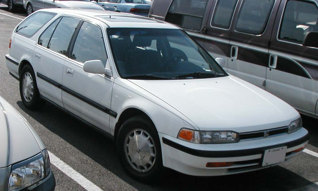 1990-1993 Honda Accord wagon photographed in USA.